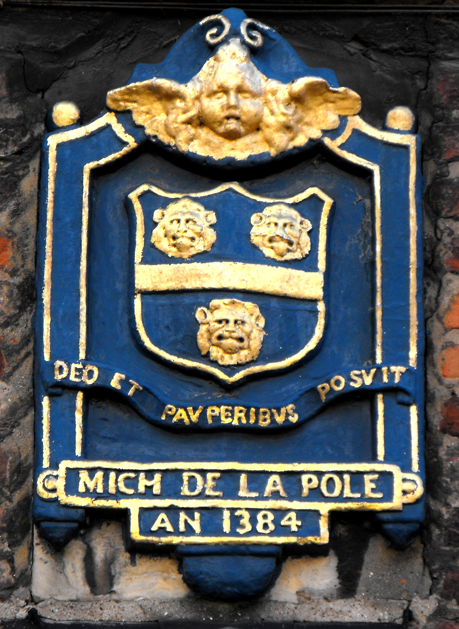 The Chaterhouse founder's arms over the doorway of the Masters house, Kingston upon Hull.